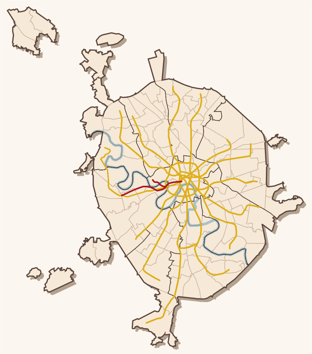 Map of Filyovskaya Line of Moscow Metro on Moscow map